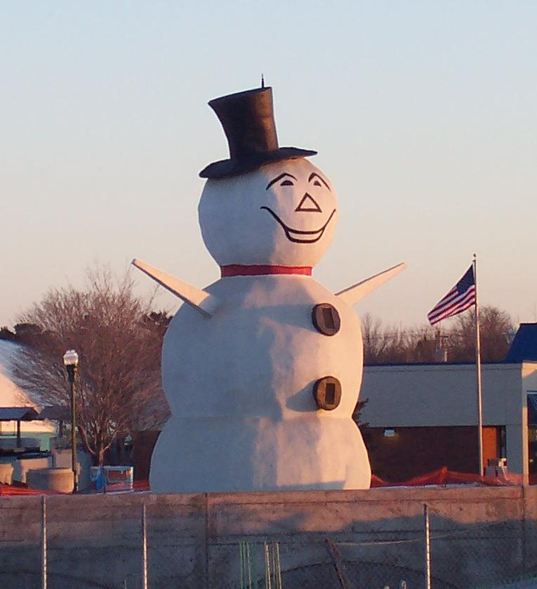 Picture taken by me, Feb 2008